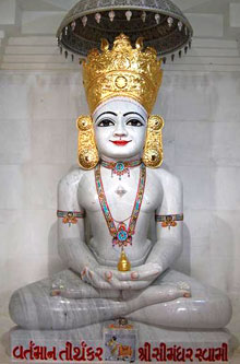 Photo of Shri Simandhar Swami statue from Bhuj, Gujarat, India